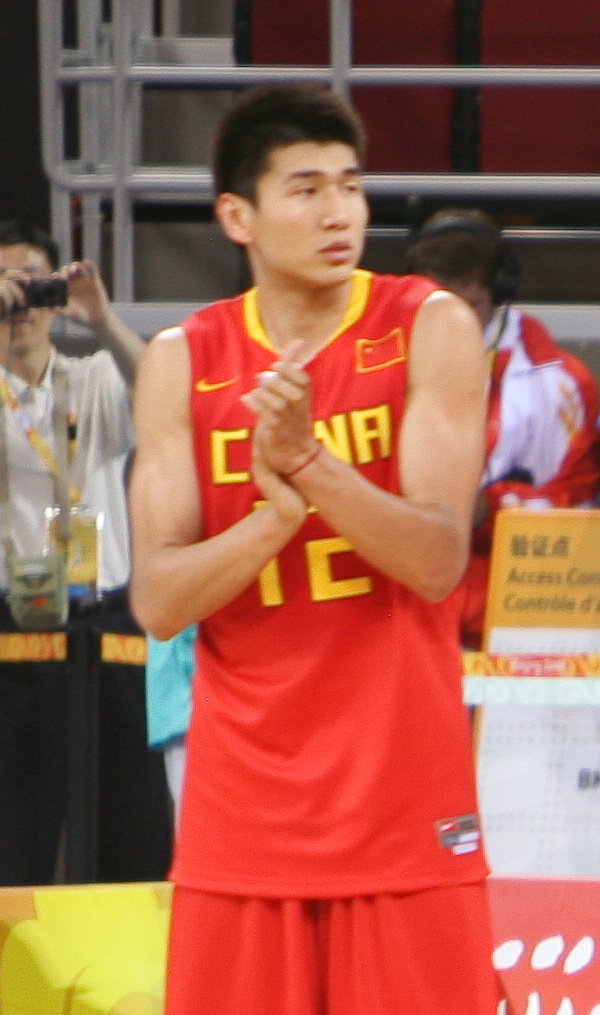 Team China - Men's Basketball - Beijing 2008 Olympics